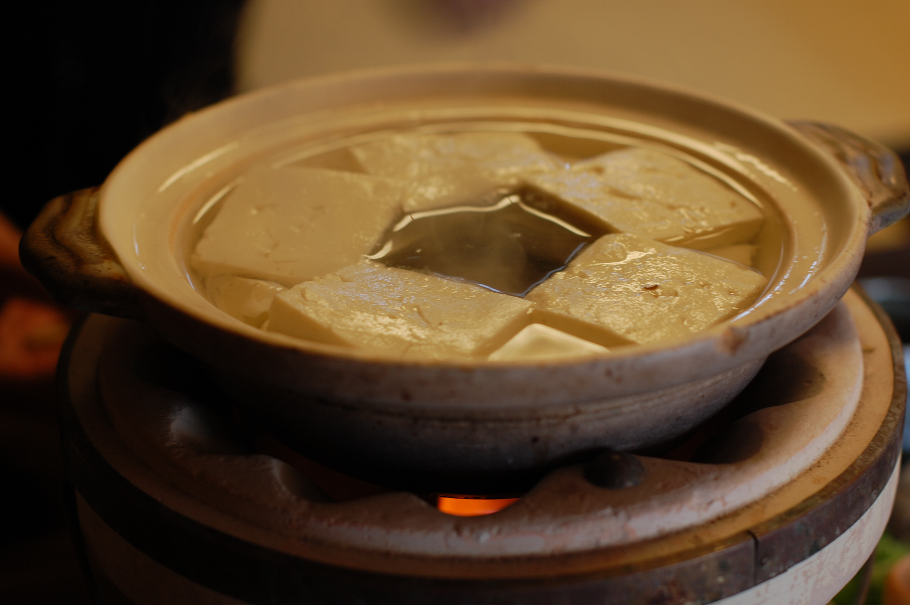 Yudōfu (Boiled Tofu)